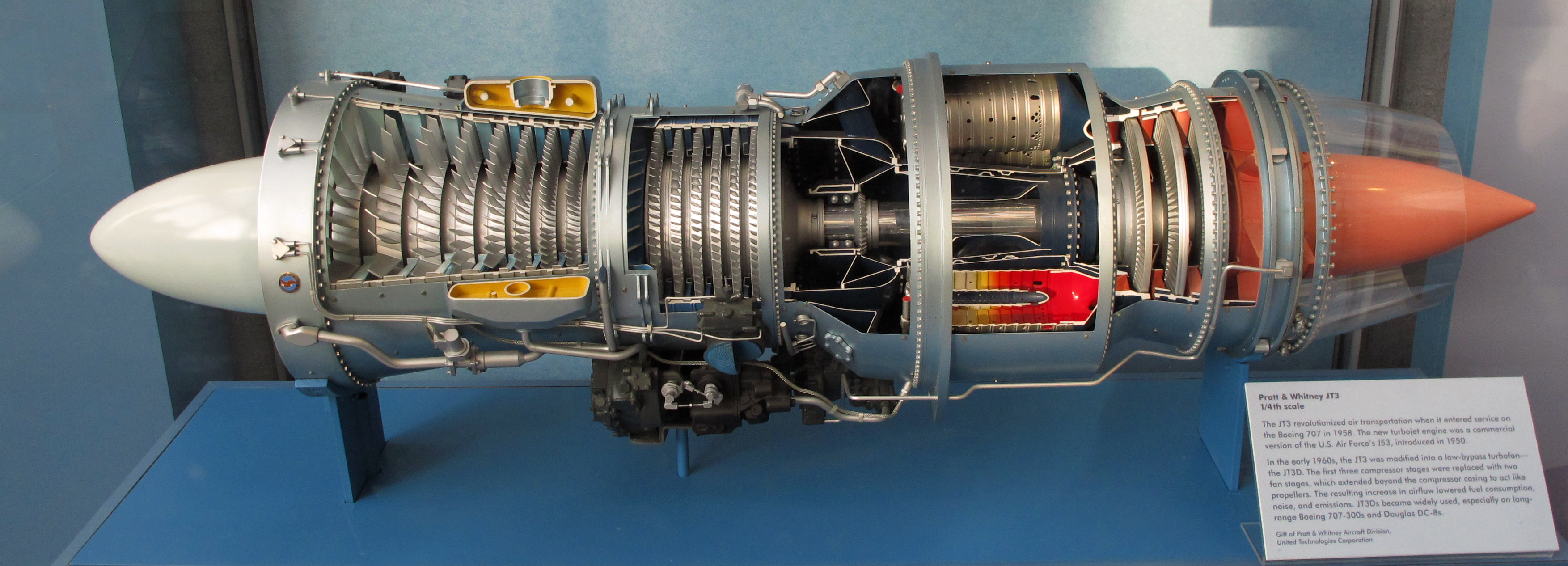 The Pratt & Whitney JT3 turbojet engine (1/4th scale). This was a commercial version of the U.S Air Force's J53, introduced in 1950. Picture taken at the National Air and Space Museum, Washington, D.C, USA. In the early 1960's, the JT3 was modified into a low-bypass turbofan, the JT3D.